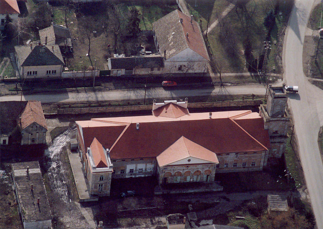 Palace - Kiszombor - Hungary - Europe (Rónay Mansion)